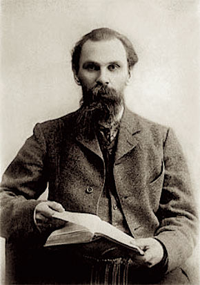 Ivan Yuvachev. After prison and penal servitude.